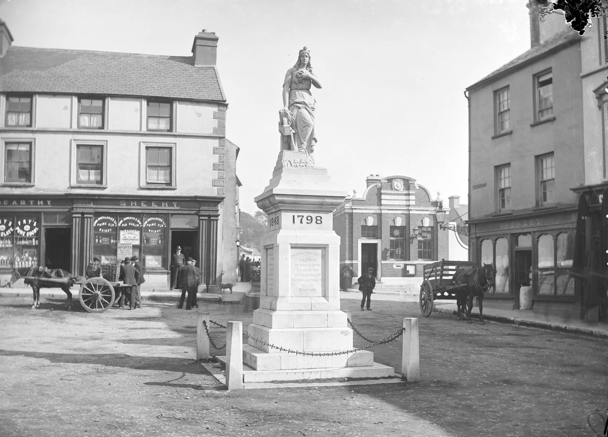 May all of the gods smile on whoever put the sign in Sheehy's shop window that says: Skibbereen Athletic Sports and Bicycle Races Town Park Monday, 28th Sept. Any of you got one of those snazzy day/year calculators for when 28th September fell on a Monday around the 1880s/1890/1900s-ish? Plus,would you say that's Mr Sheehy standing in the doorway? That gentleman looks mighty proprietorial... Plus Plus: Amazingly rare sighting of a cat in one of our early photos... Plus Plus Plus: This is an image rejected by William Lawrence as not quite up to the company's usual standard, yet it's possible to make out the name on the stonemason on the base of the monument! Date: 1900? NLI Ref.: L_NS_00001